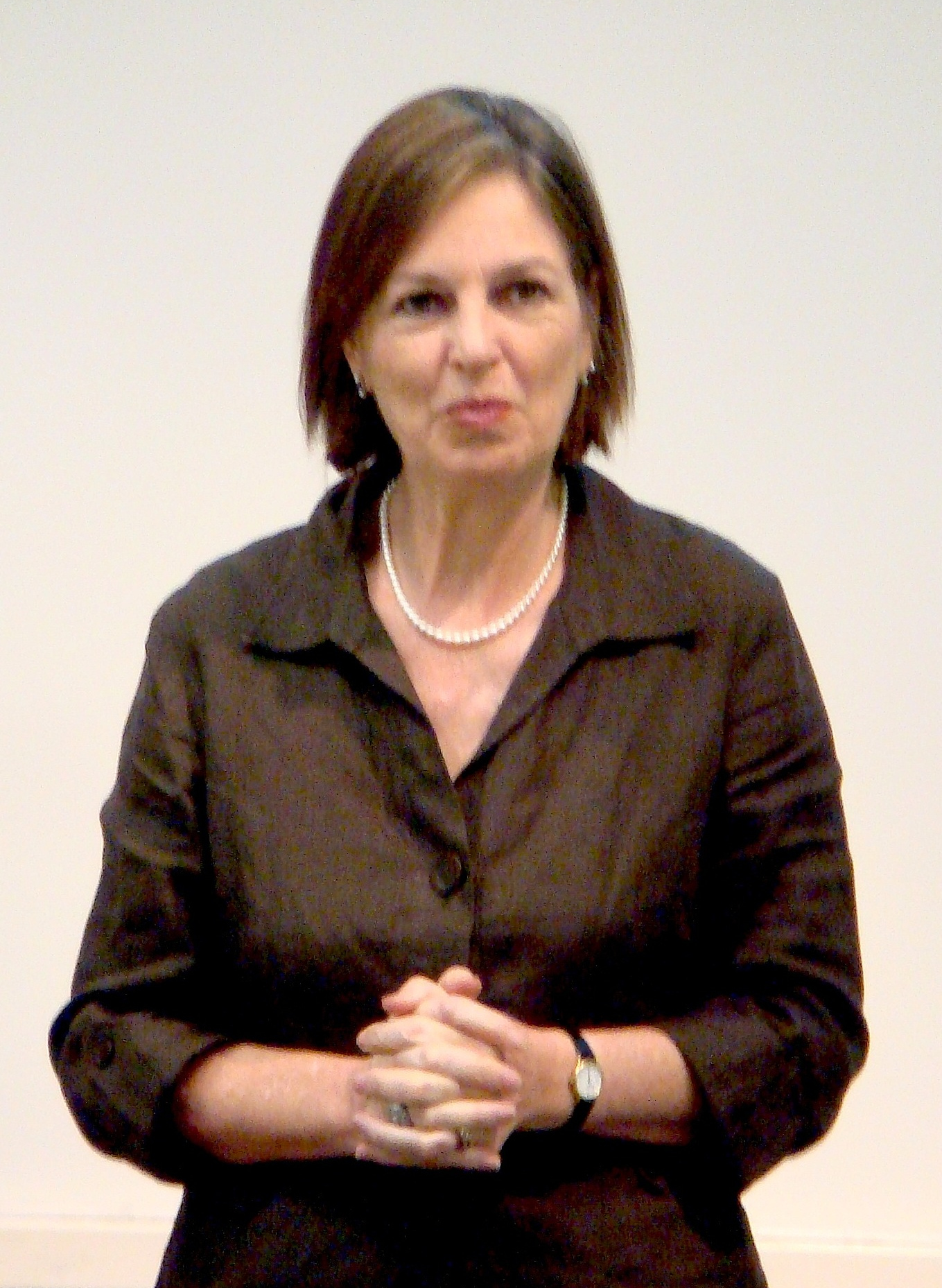 Tessa Blackstone, Baroness Blackstone